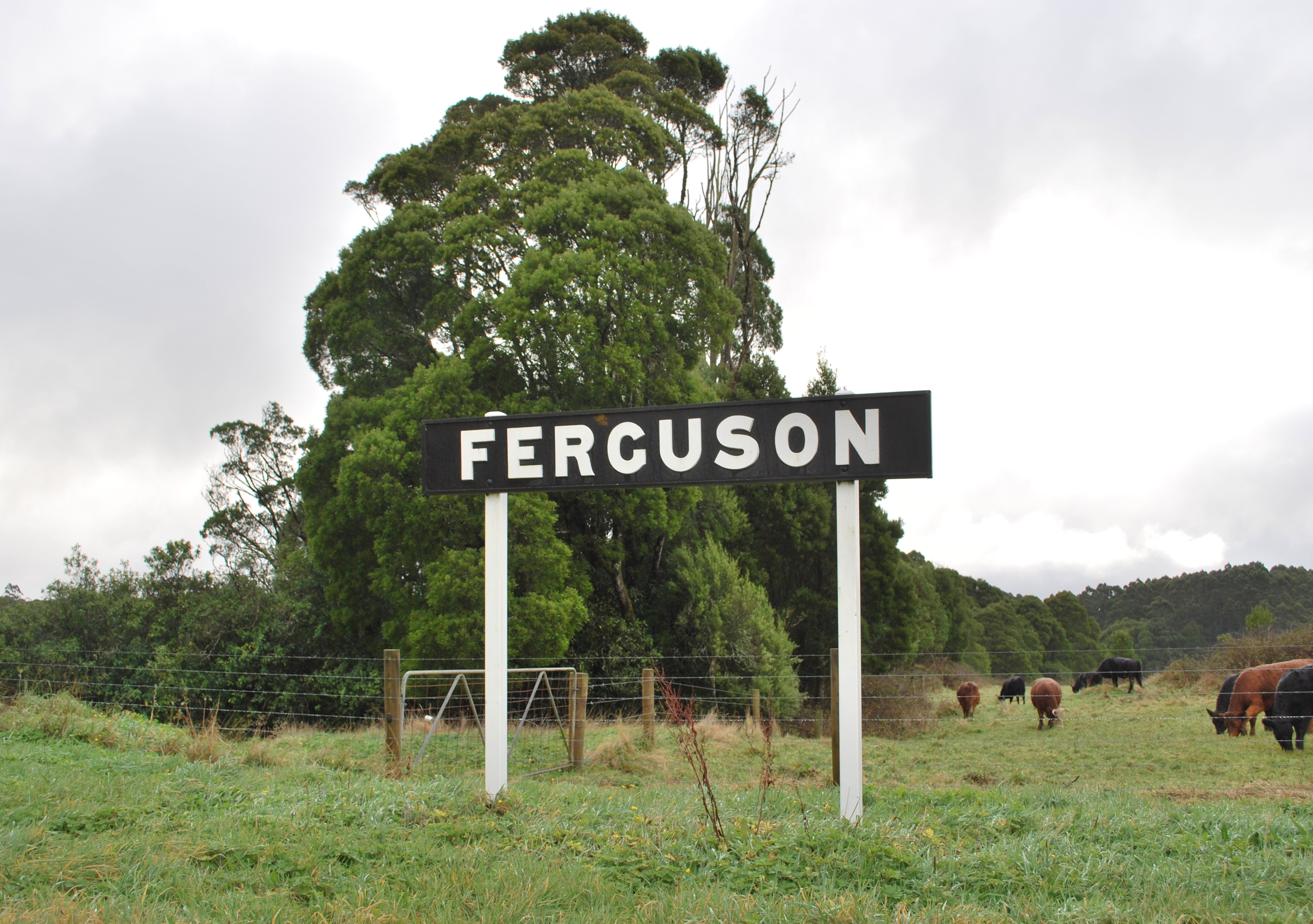 The former train station sign at Ferguson, Victoria